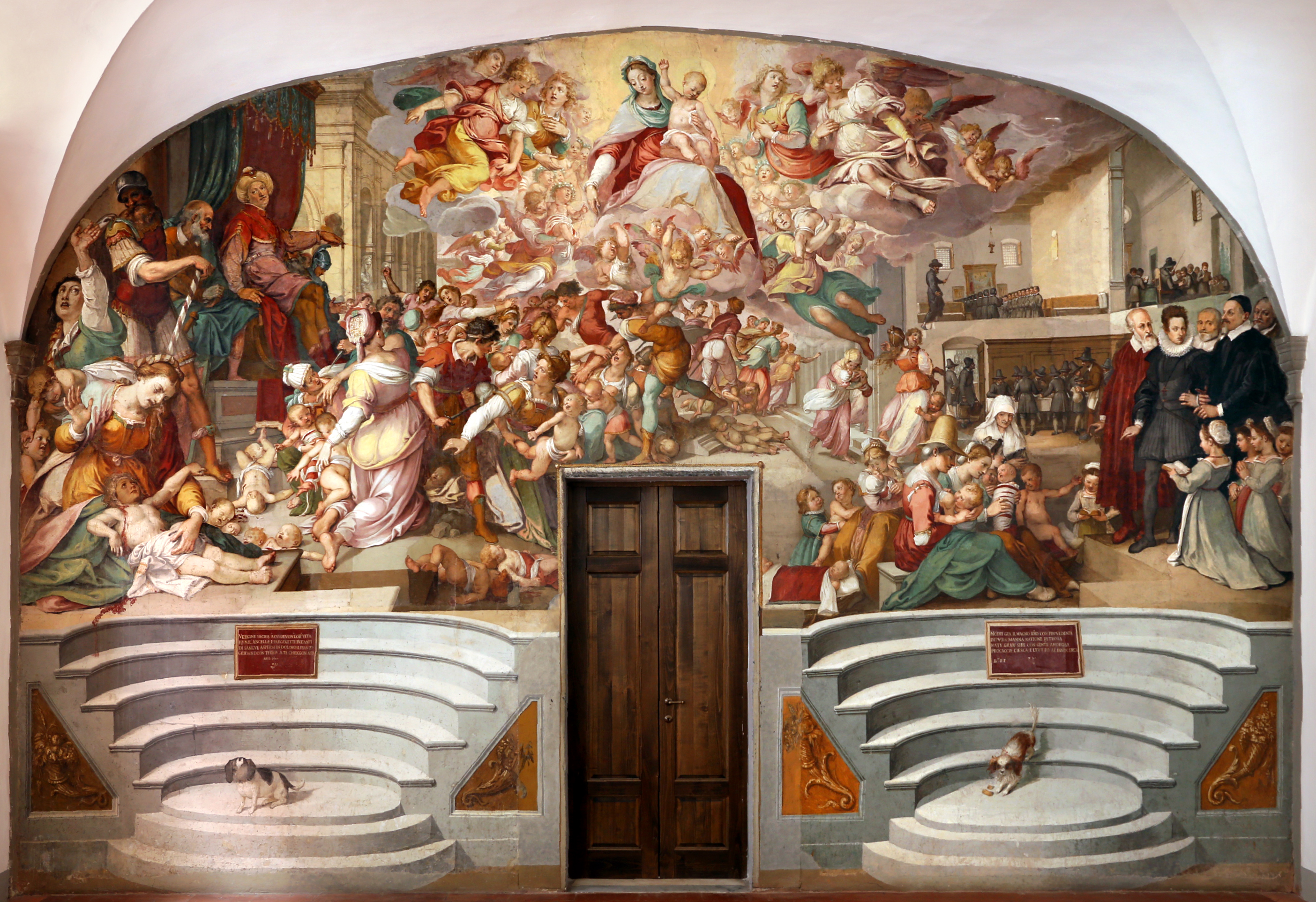 Spedale degli Innocenti - Ex-Refectory